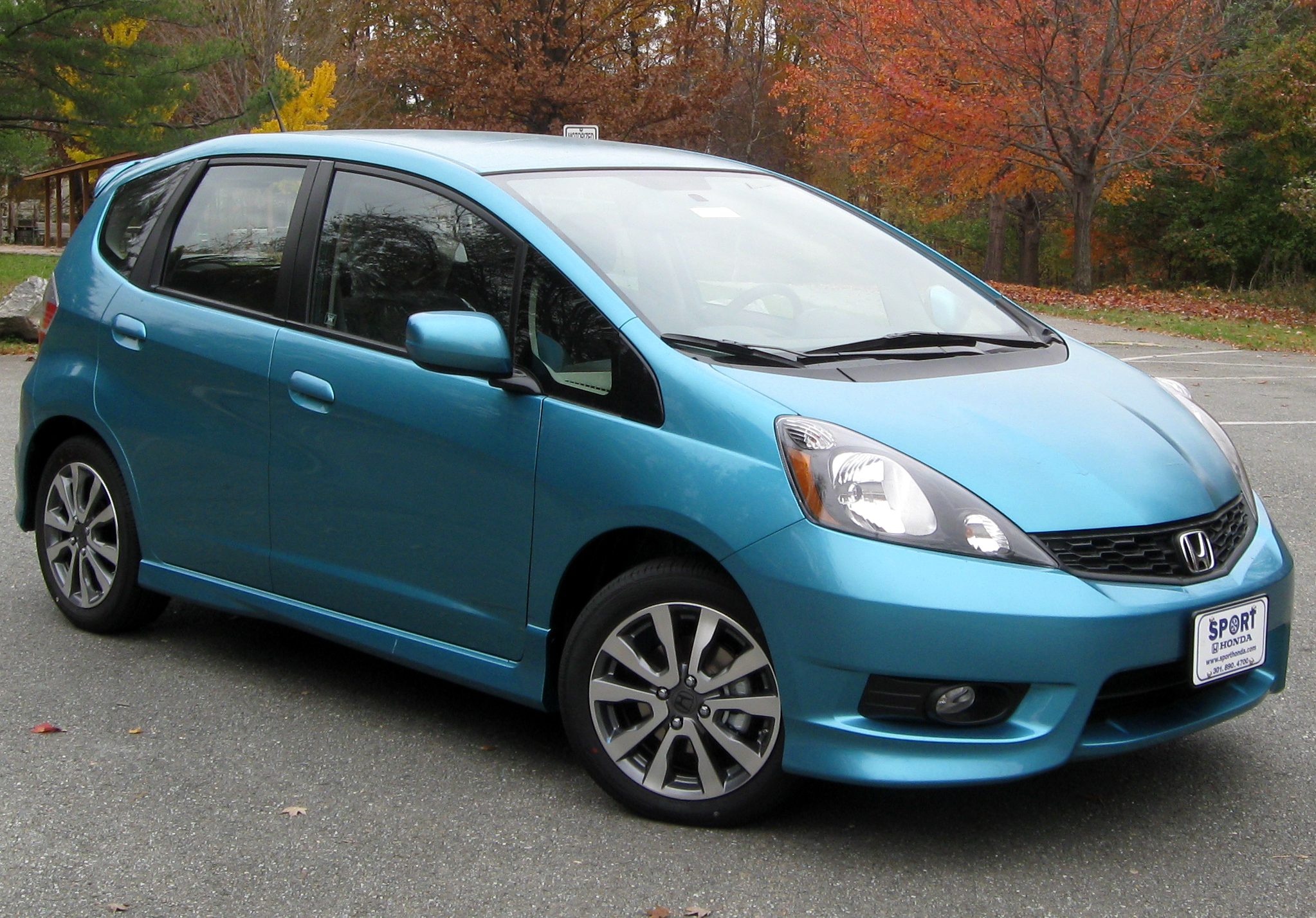 2012 Honda Fit photographed in Silver Spring, Maryland, USA.